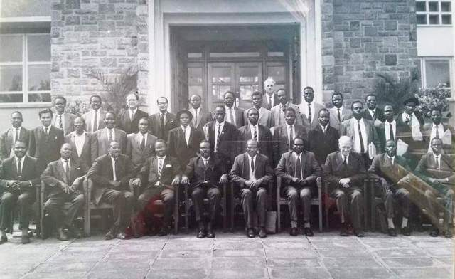 Paul Boit as Sirikwa County Council Chairman